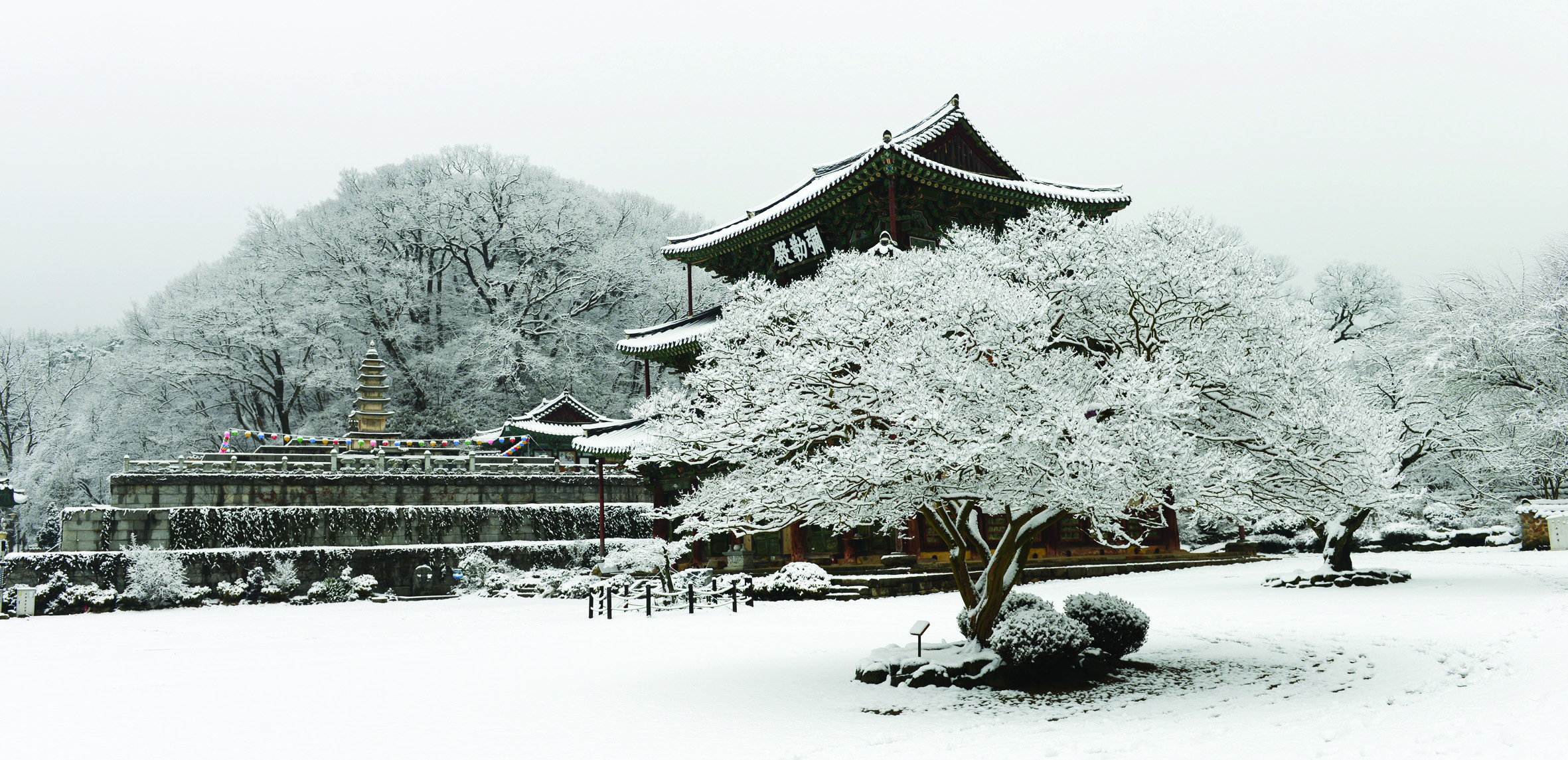 Geumsan temple